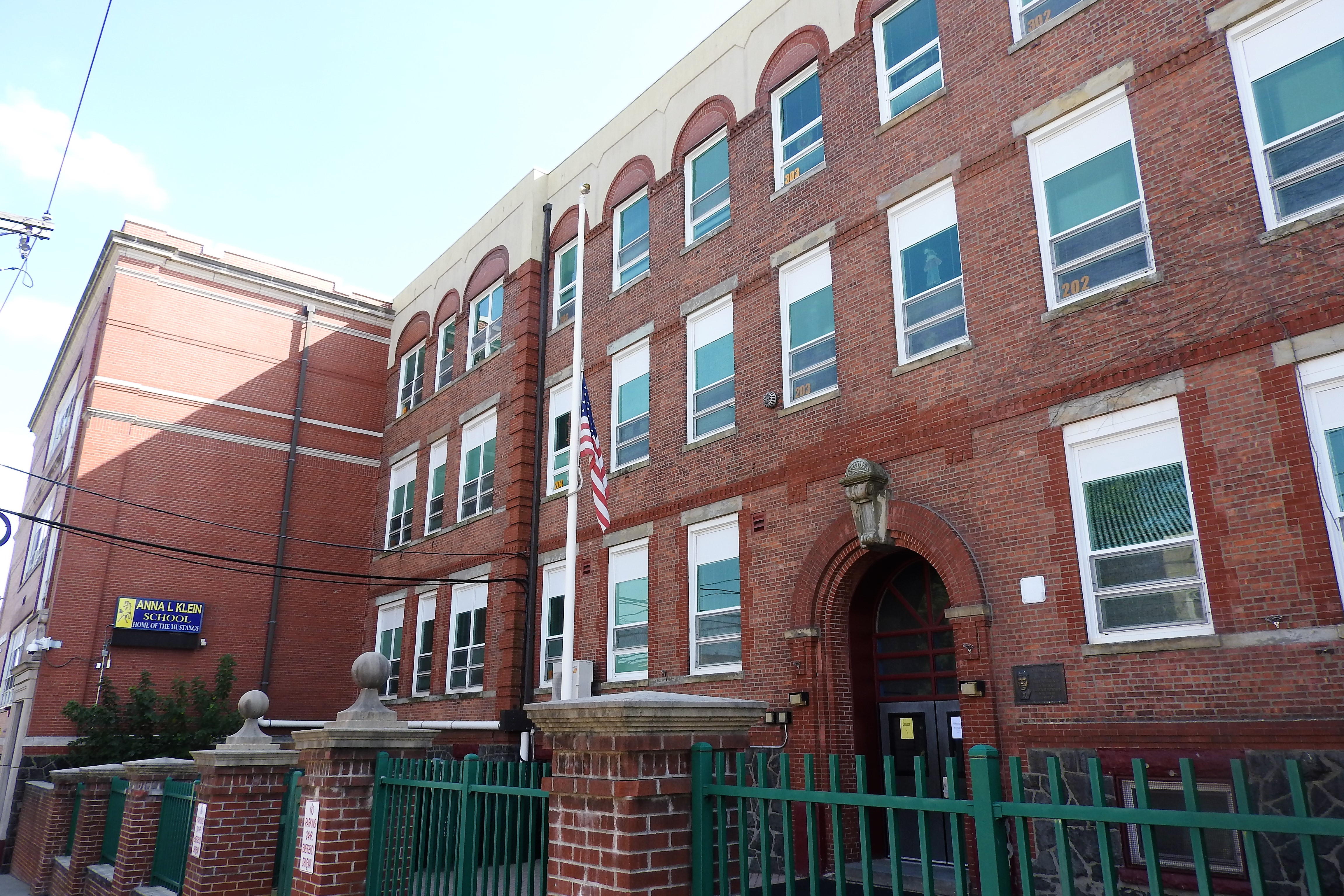 Looking south at the Anna Klein School on a sunny afternoon